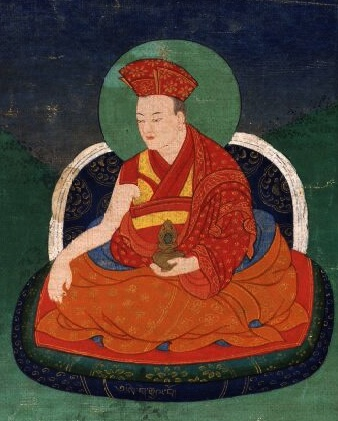 Sengge Gyelpo b.1289 - d.1326, 7th Abbot of Ralung Monastery, Tibet